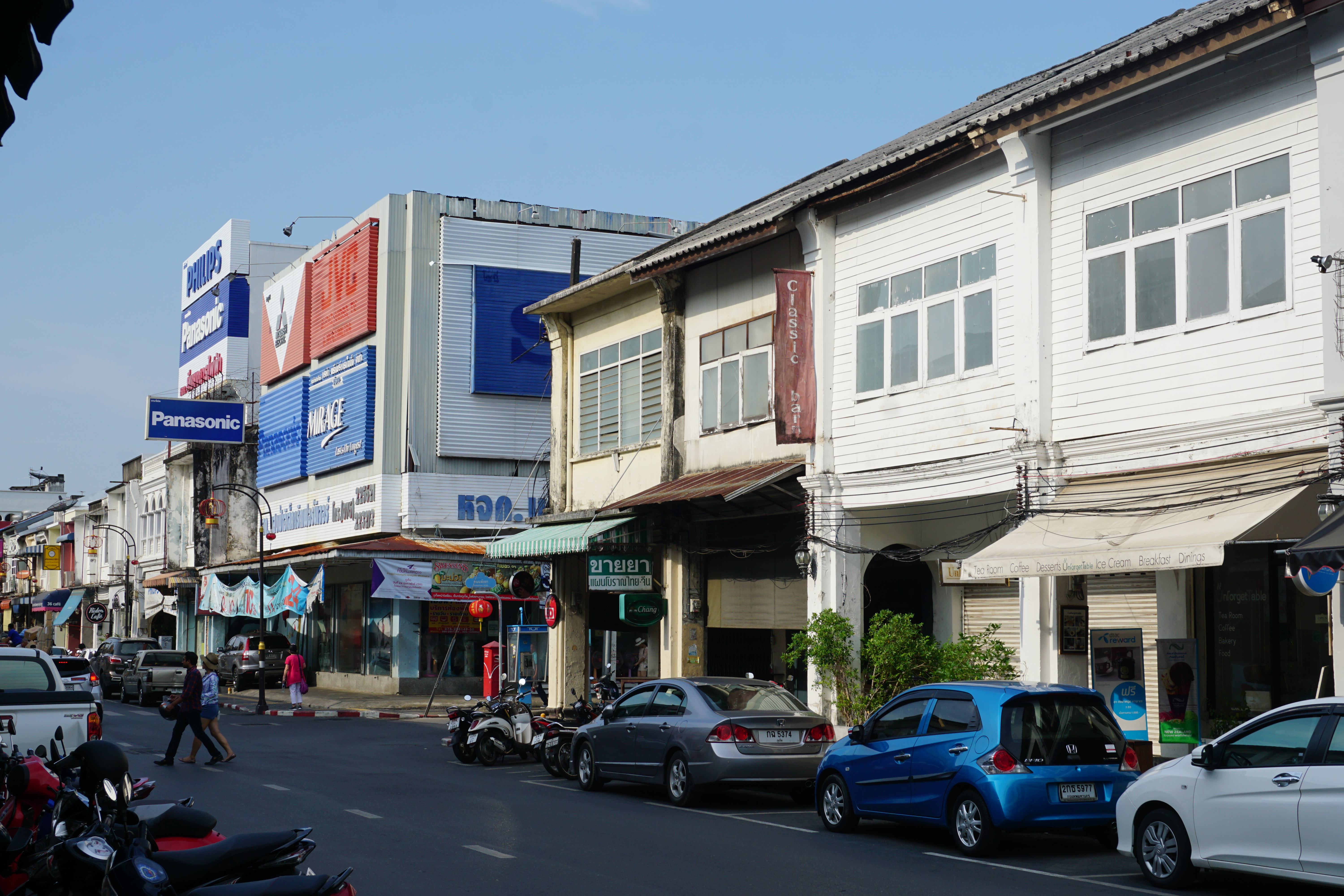 Old historic center of Phuket Town, Thailand